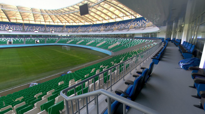 Stadium Bunyodkor in Tashkent